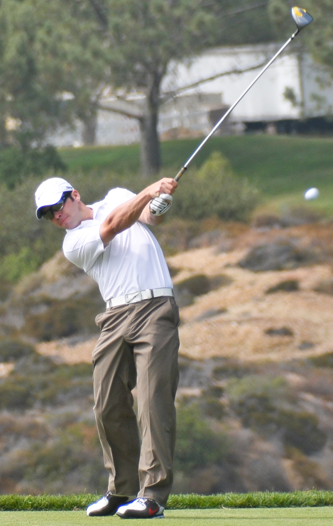 Paul Casey tees off during a practice round in the 2008 US Open at Torrey Pines.